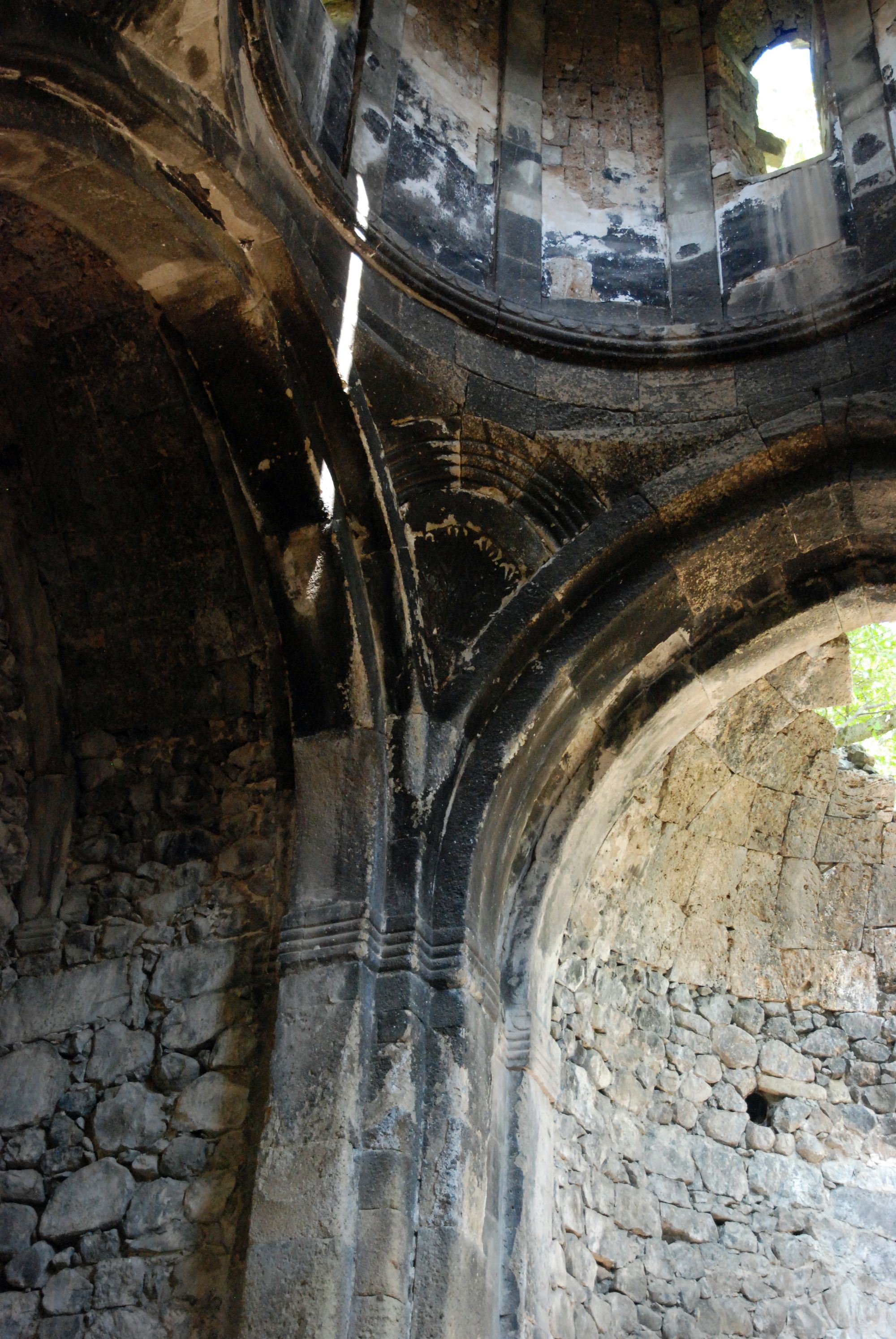 Yeni Rabat, Artvin province, Georgian church